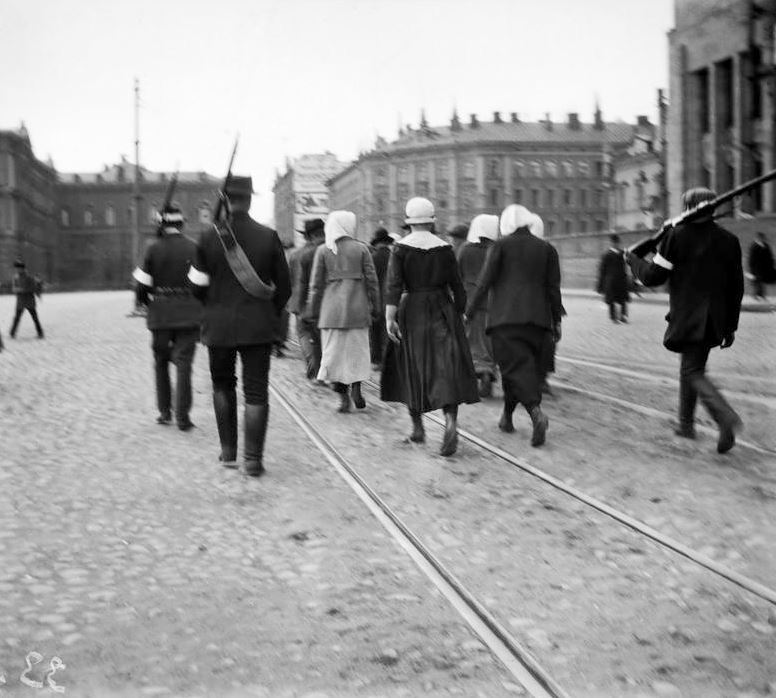 1918 Finnish Civil War: Captured members of the Riihimäki Female Red Guard in Helsinki on their way to the Sveaborg Prison Camp.